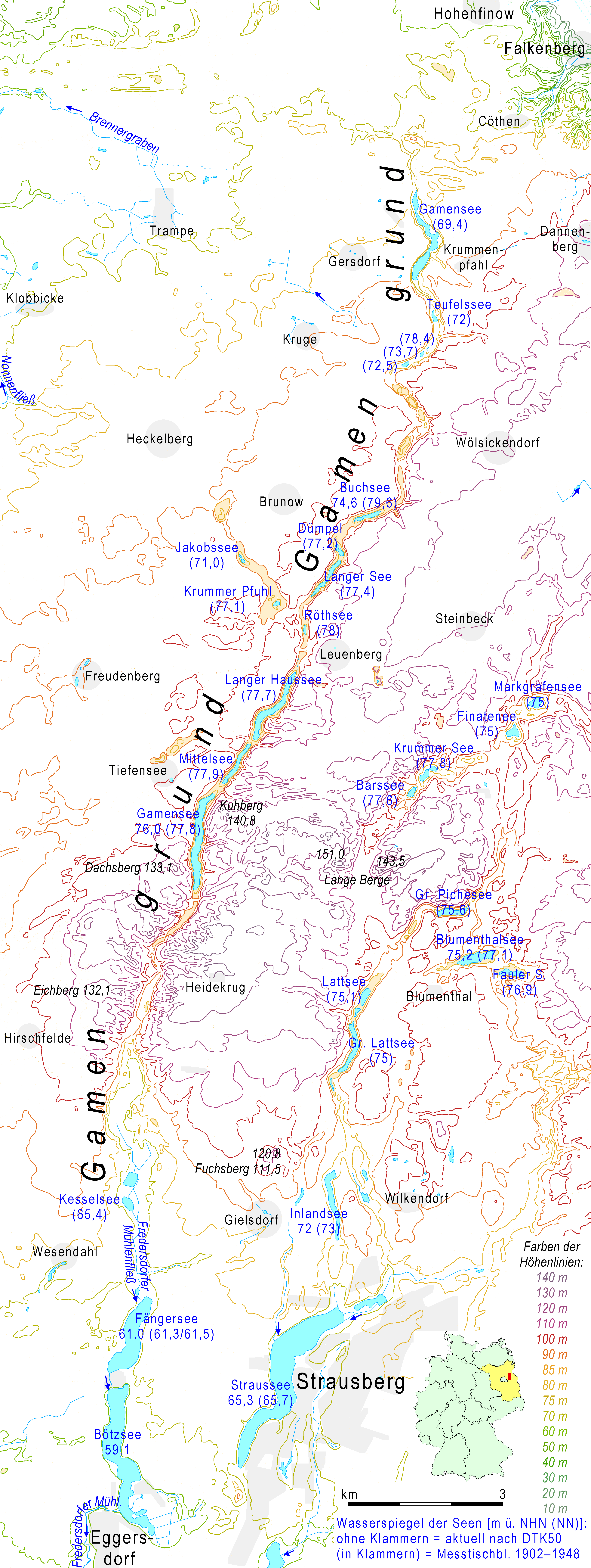 Relief map of Gamengrund valley east of Berlin. The level contouts are distinguished by a colour code. Several of the numerous depressions are emphasized by background colouring. The water levels of several lakes noted in the labels.